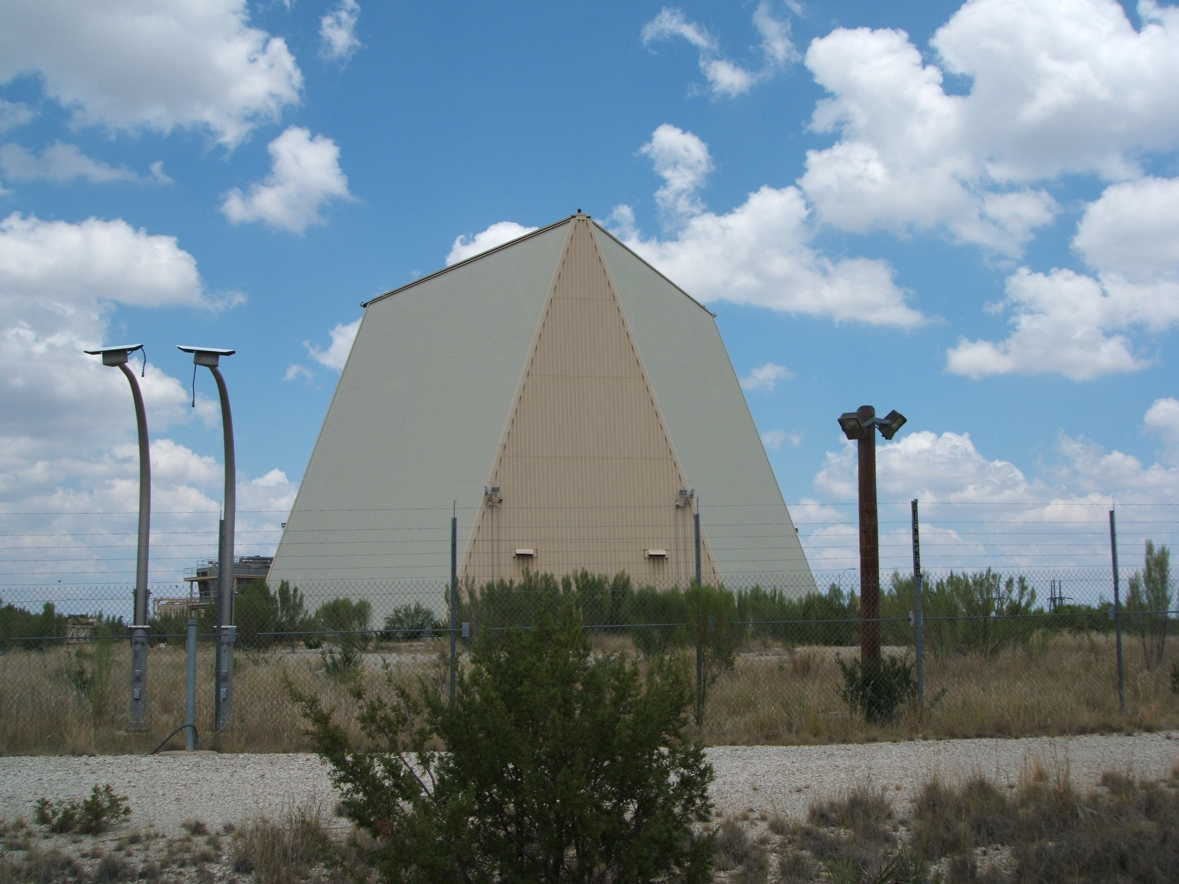 Pave Paws Eldarado Air Force Station